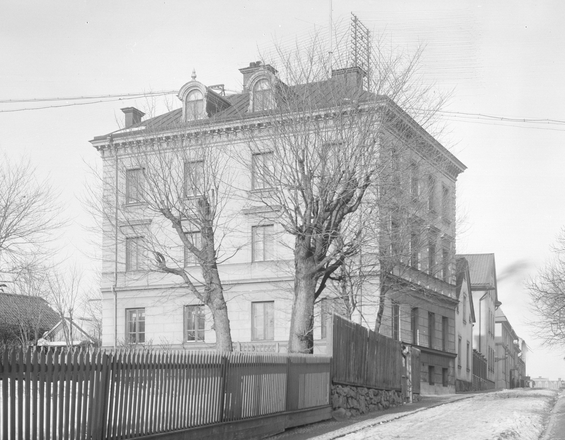 Gotlands Nation, Uppsala. First nation house 1873-1957. Photo 1898.